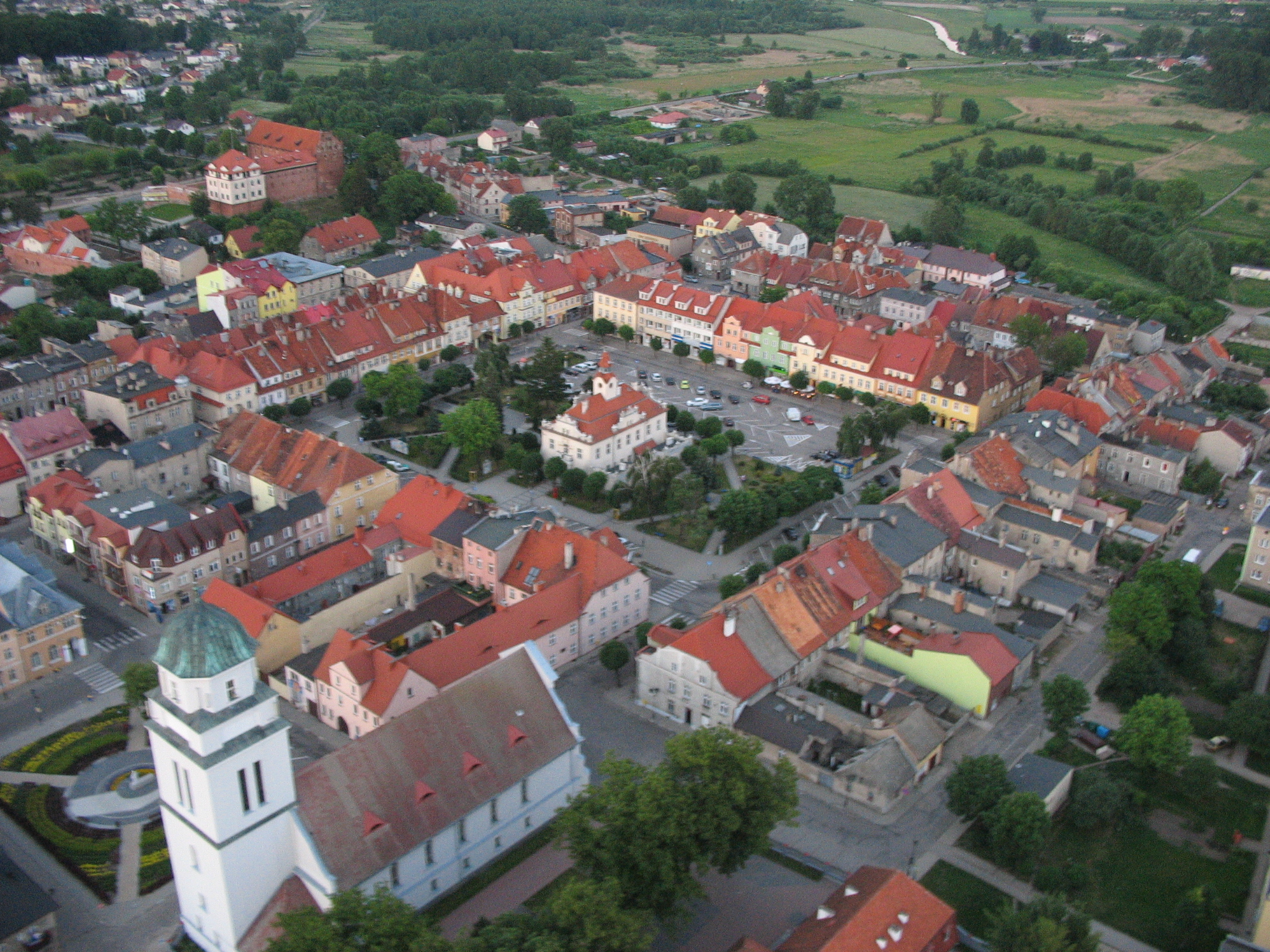 Rynek w Działdowie - widok z lotu ptaka